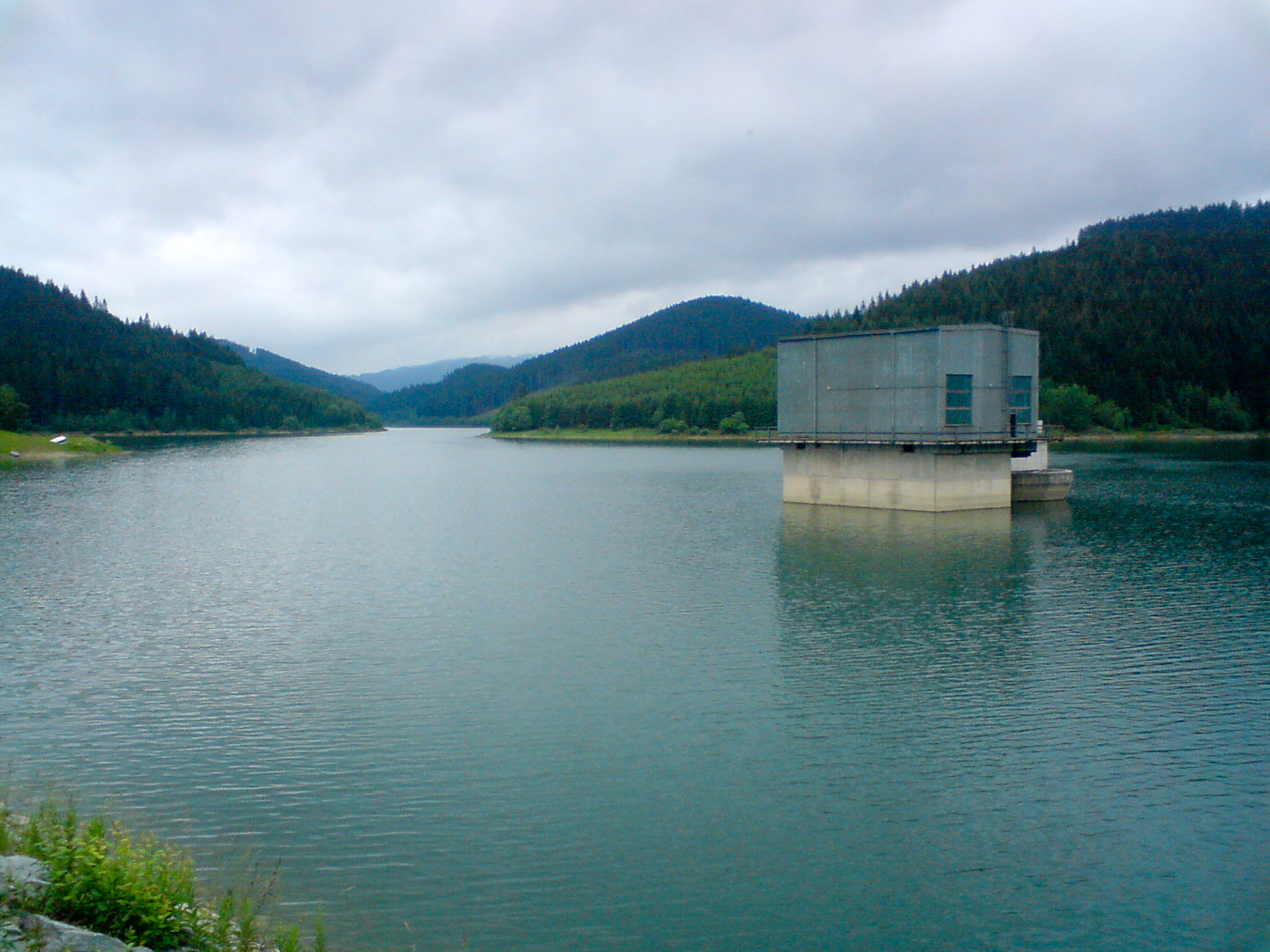 Vodárenská nádrž Nová Bystrica, zariadenie na sledovanie kvality a odber vody